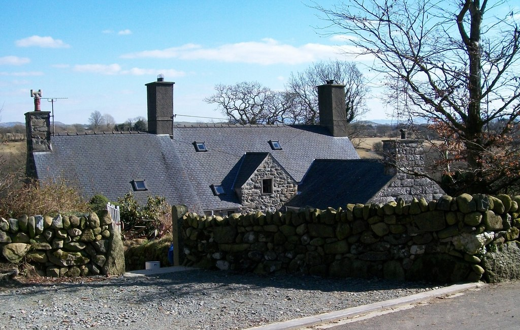 The elegant Bettws Bach farmhouse The correct version of this name is Betws Bach - Welsh does not have double "Ts". Betws is a medieval corruption of the English "bead house" i.e. rosary house and refers to the ruined chapel in the fields between Bettws Fach and Betws Fawr.